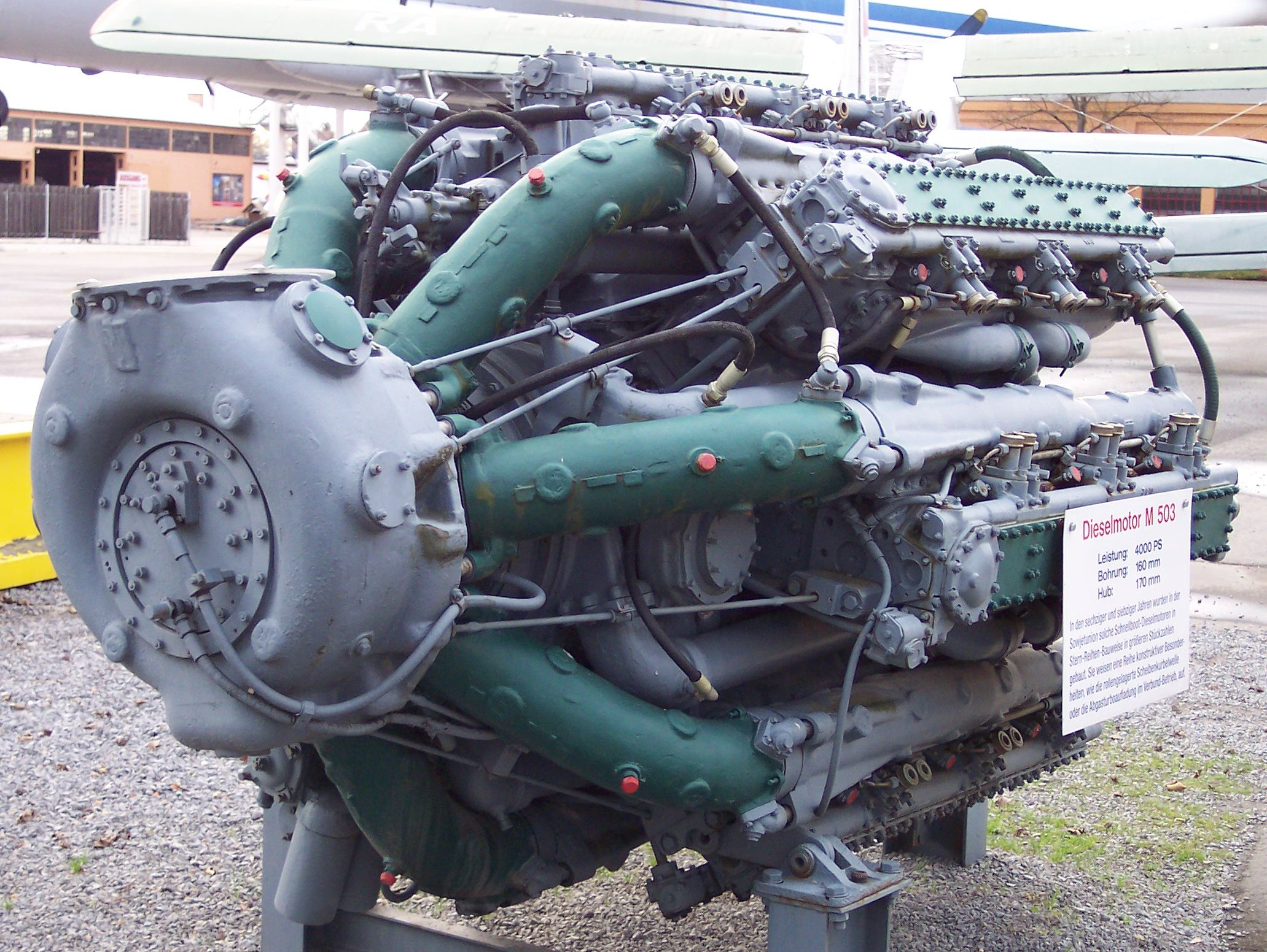 JSC Zvezda M503 diesel engine for the fast attack boat (Missile boat) - Osa class missile boat engine